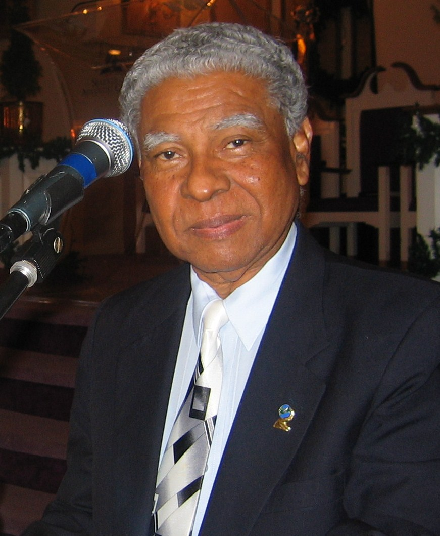 This is a picture of Stennett H. Brooks.